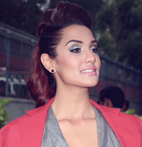 Priyanka Karki at the premier of her movie Sadanga